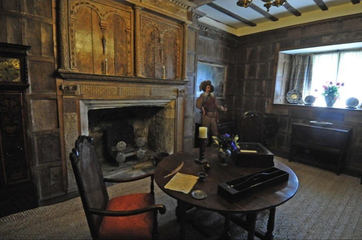 THIS IS THE PANELLED ROOM WITHIN THE HOME.